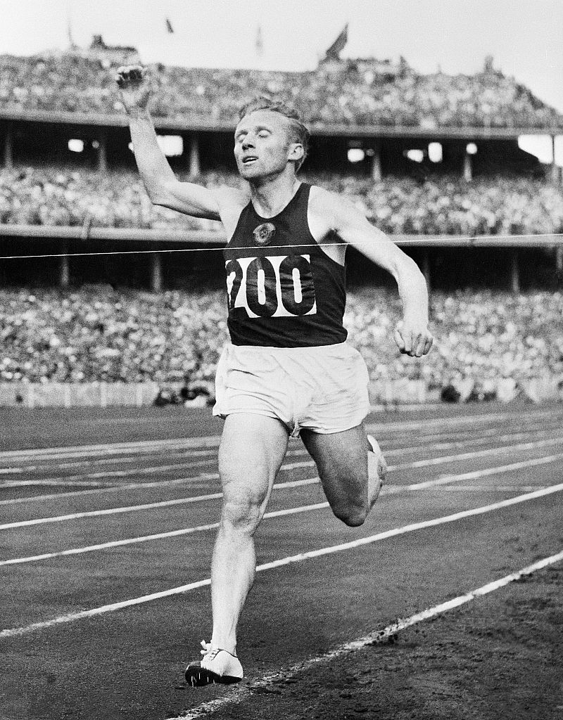 LG290 1956 Wire Photo VLADIMIR KOUTS Russian Olympic Distance Runner Melbourne